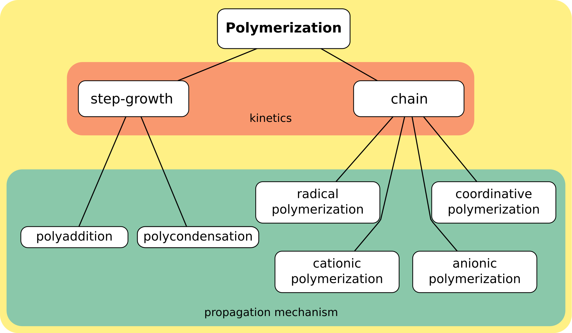 A classification of the polymerization reactions: Step-growth, Chain and others. Modified from original CC figure on Polymer Wiki page by replacing "chain-growth" to "chain"